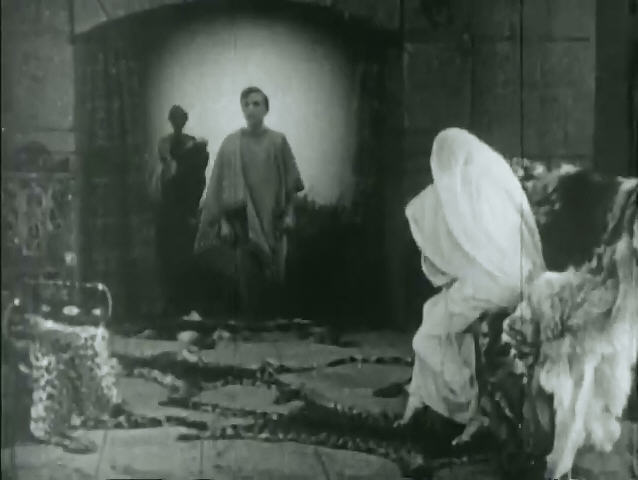 'She' has a vision of the approach of Kallikartes in the film 'She' (1911)